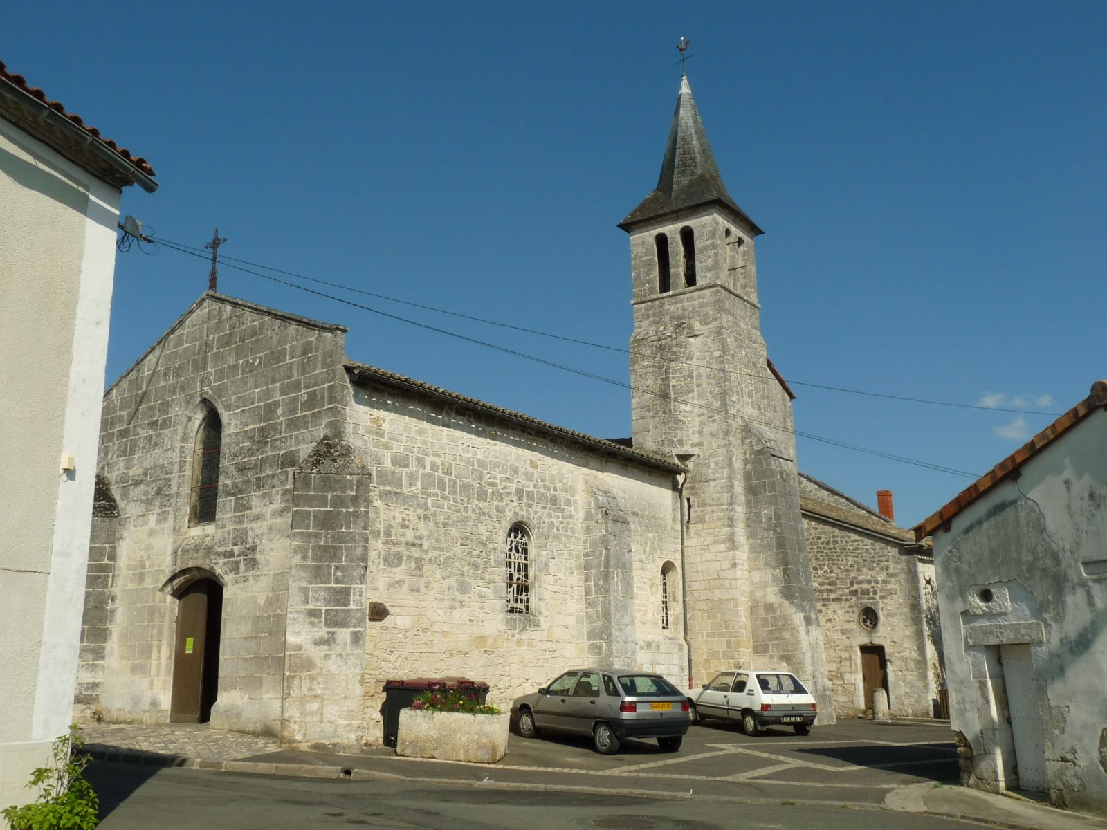 church of Ruelle, Charente, SW France